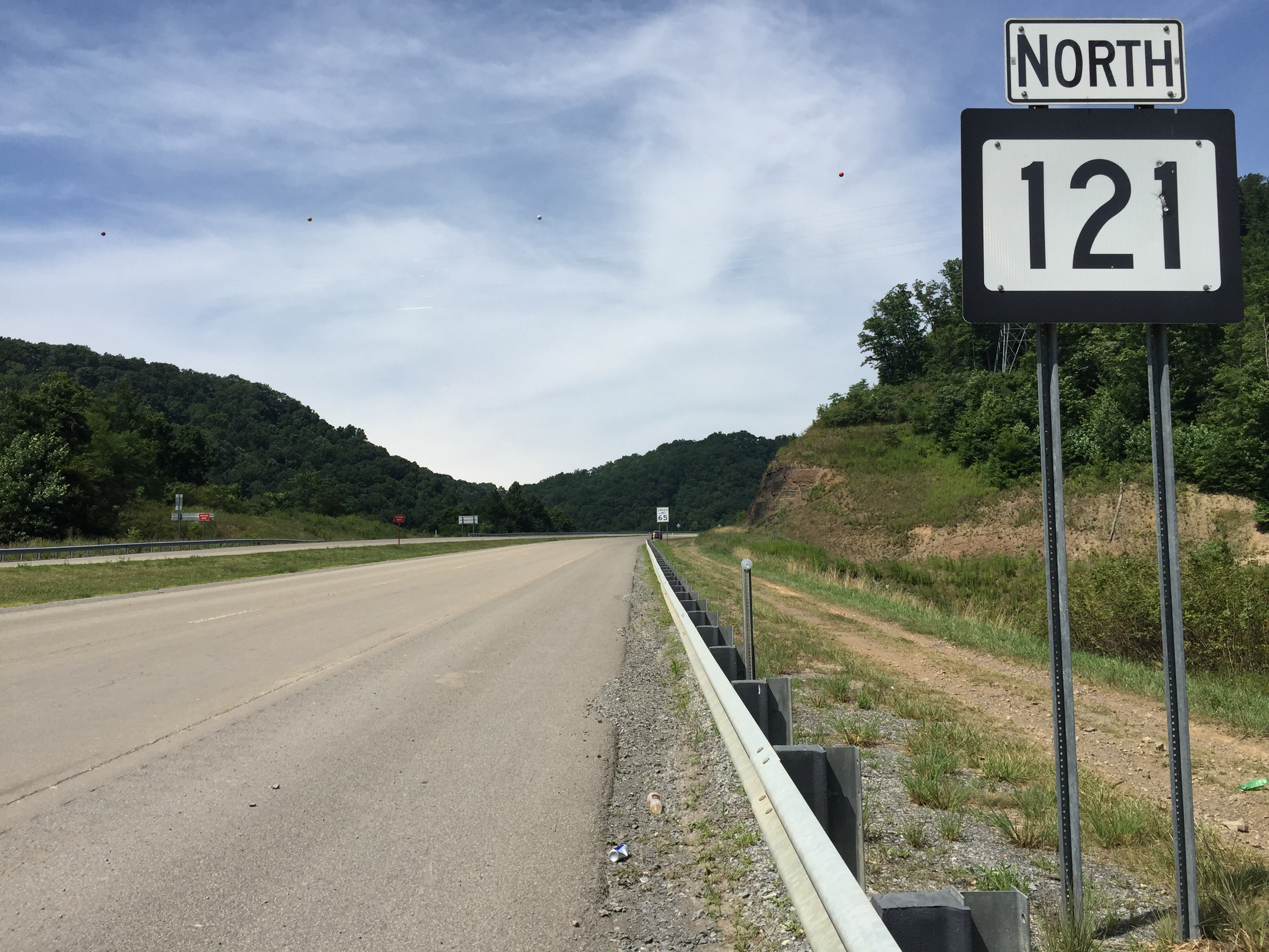 View north along West Virginia State Route 121 (Coalfields Expressway) at Slab Fork Road (Raleigh County Route 34) in Slab Fork, Raleigh County, West Virginia